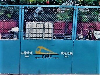 The seal of Department of Rapid Transit Systems, New Taipei City Government on Sanying Line, New Taipei Metro.